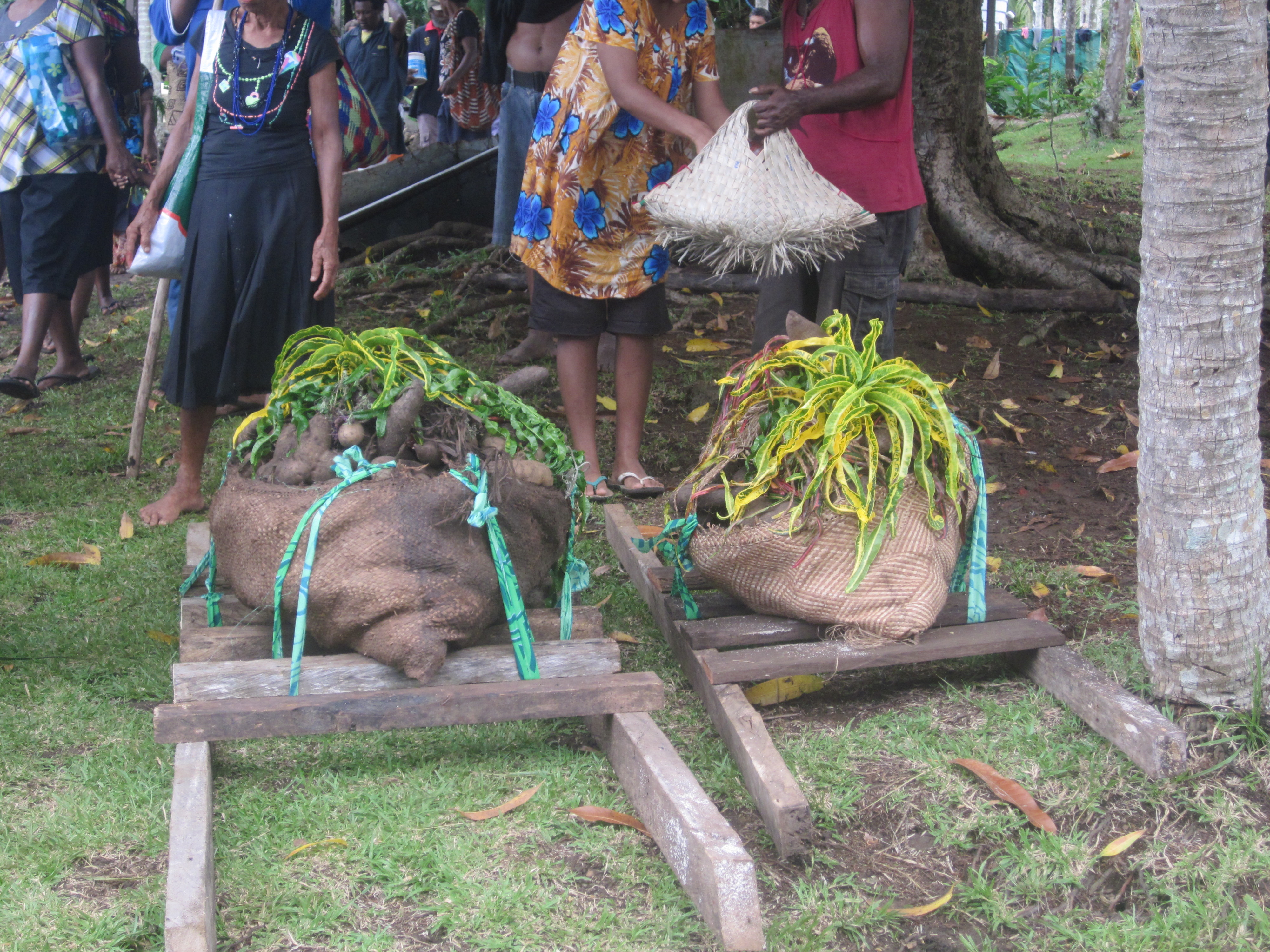 Yams exchanged at bride price